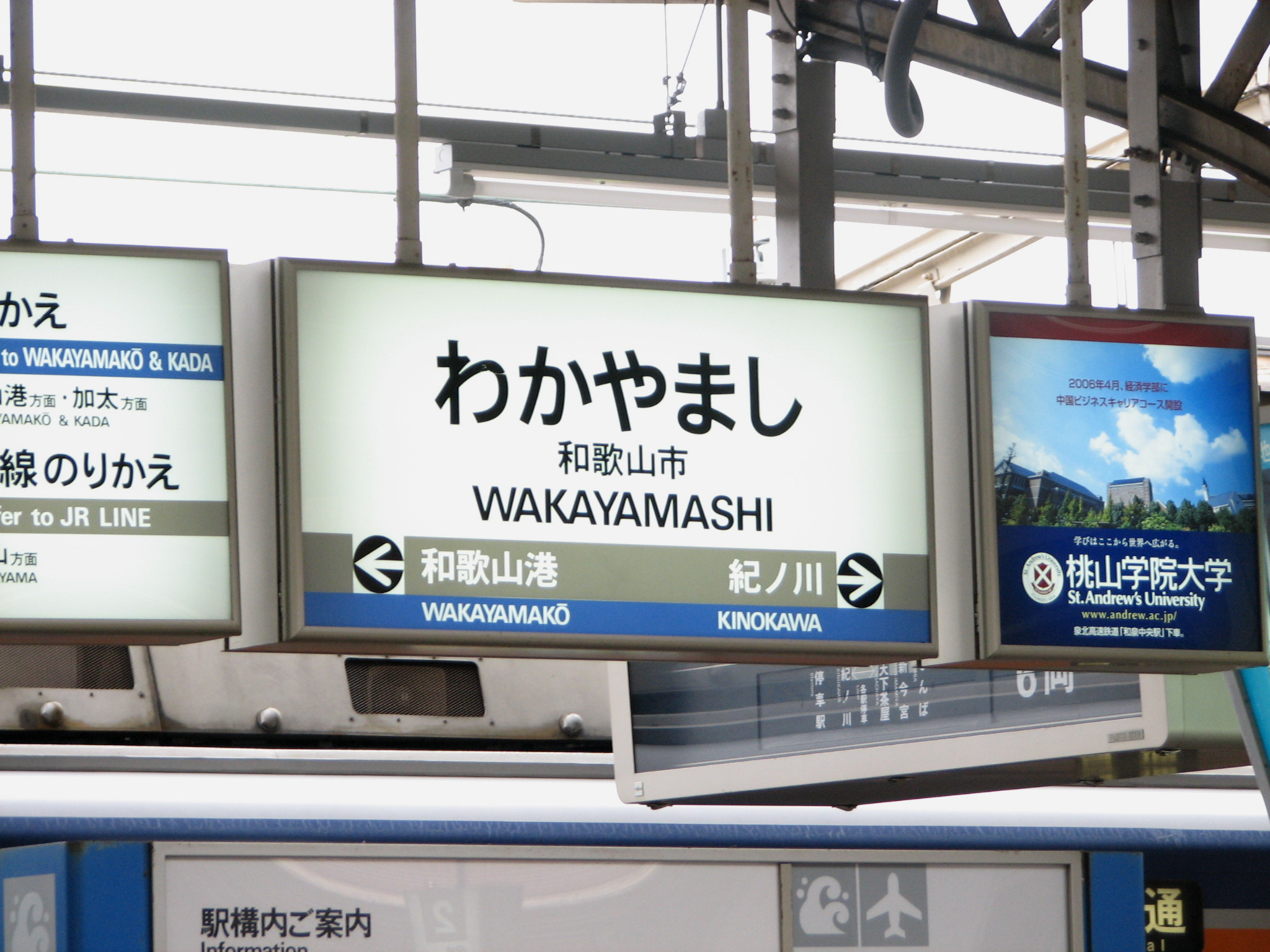 Wakayamashi Station (Nankai)